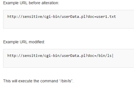 Монгол: OS Command injection